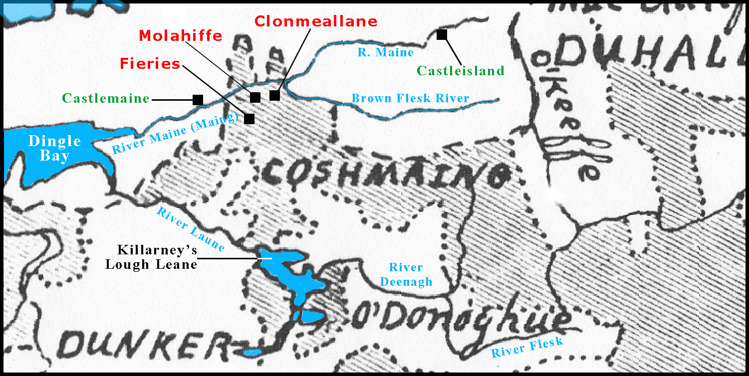 Map derived from W.F. Butler showing territory of the Lordship of Coshmaing (eastern) of the Sliocht Eoghan of Coshmaing in 1588.